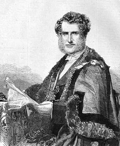 Illustration entitled The Lord Mayor Elect, the Rt. Hon. Robert Walter Carden, M. P.